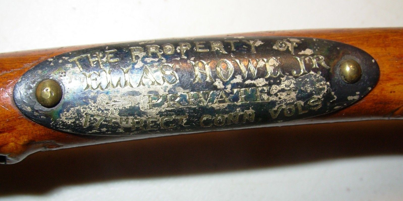 An engraved silver ID badge on a Shillelagh (cane) that Elias Howe Jr used during the Civil War, whilst serving as Postmaster in the 17th Connecticut Volunteer Infantry Regiment 1862~1865. Photo by Rob Andre Stevens, and the cane is in his Civil War Collection.